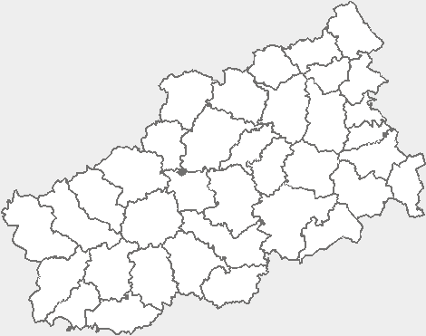 Locator map of Tver Oblast